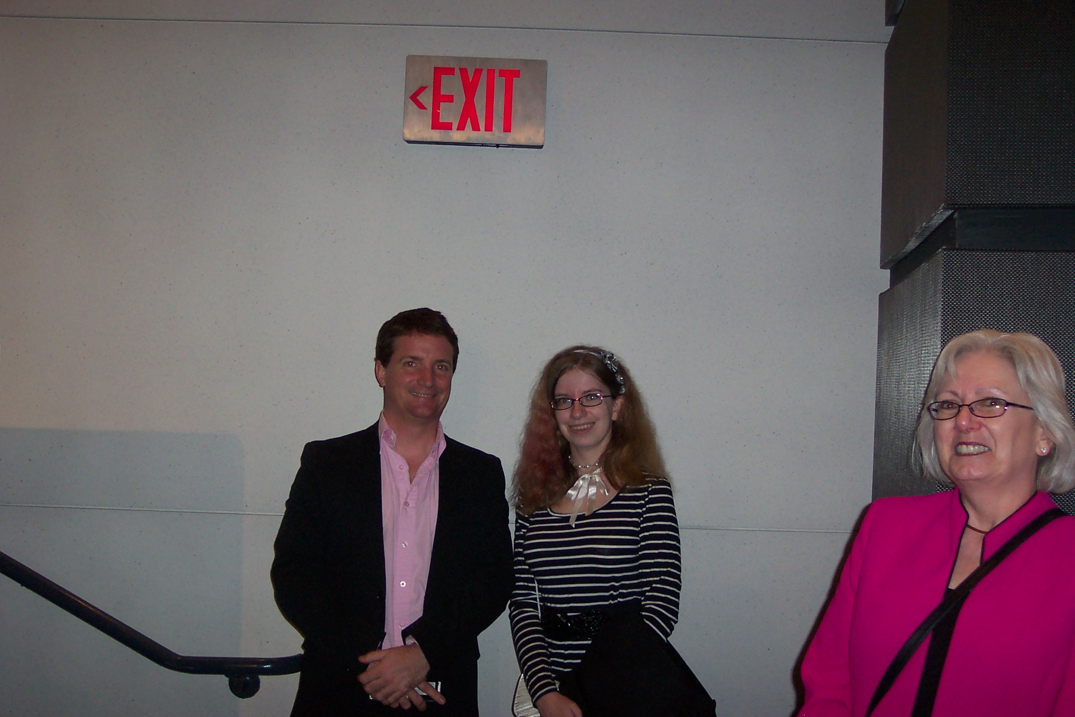 (l to r) Grady Hendrix (New York Asian Film Festival founding member) and Alexandra Swords (radio personality) at the Riding the Korean Wave in Washington DC on 16 October 2012 at the Jack Morton Auditorium (George Washington University)